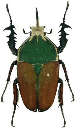 Mecynorhina ugandensis var. 29